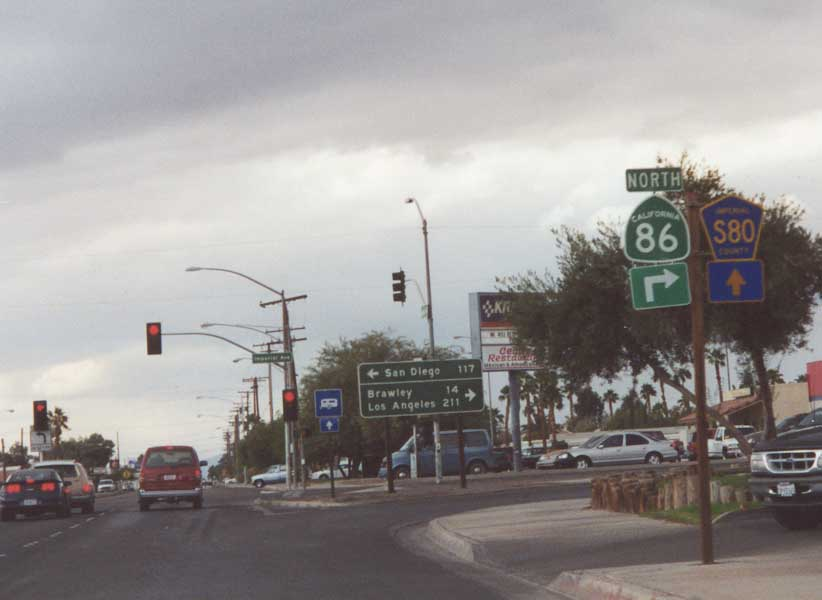 S80 in ElCentro